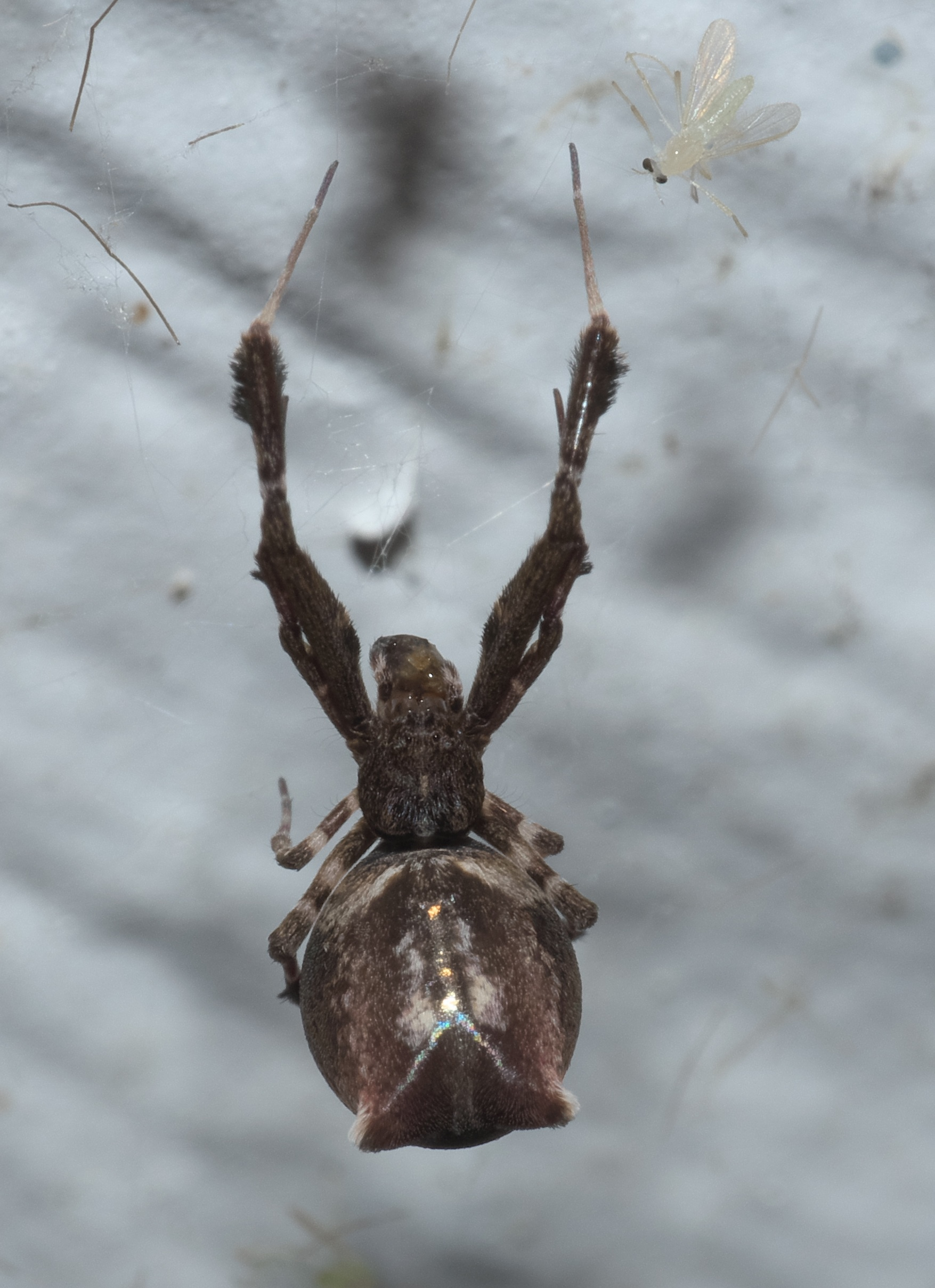 Uloborus glomosus, featherlegged orbweaver, ID Confidence: 90